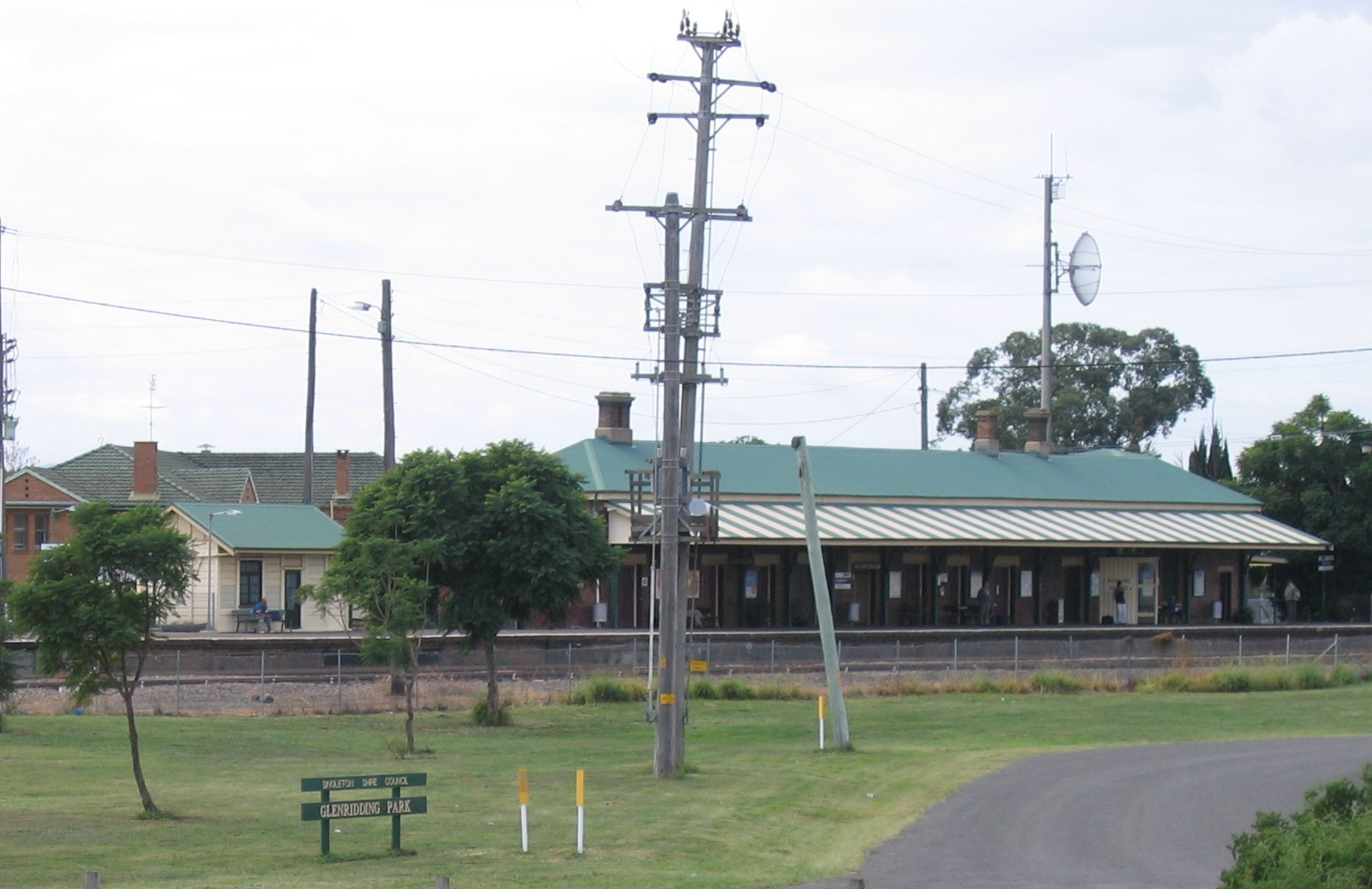 Singleton Railway station viewed from across the tracks